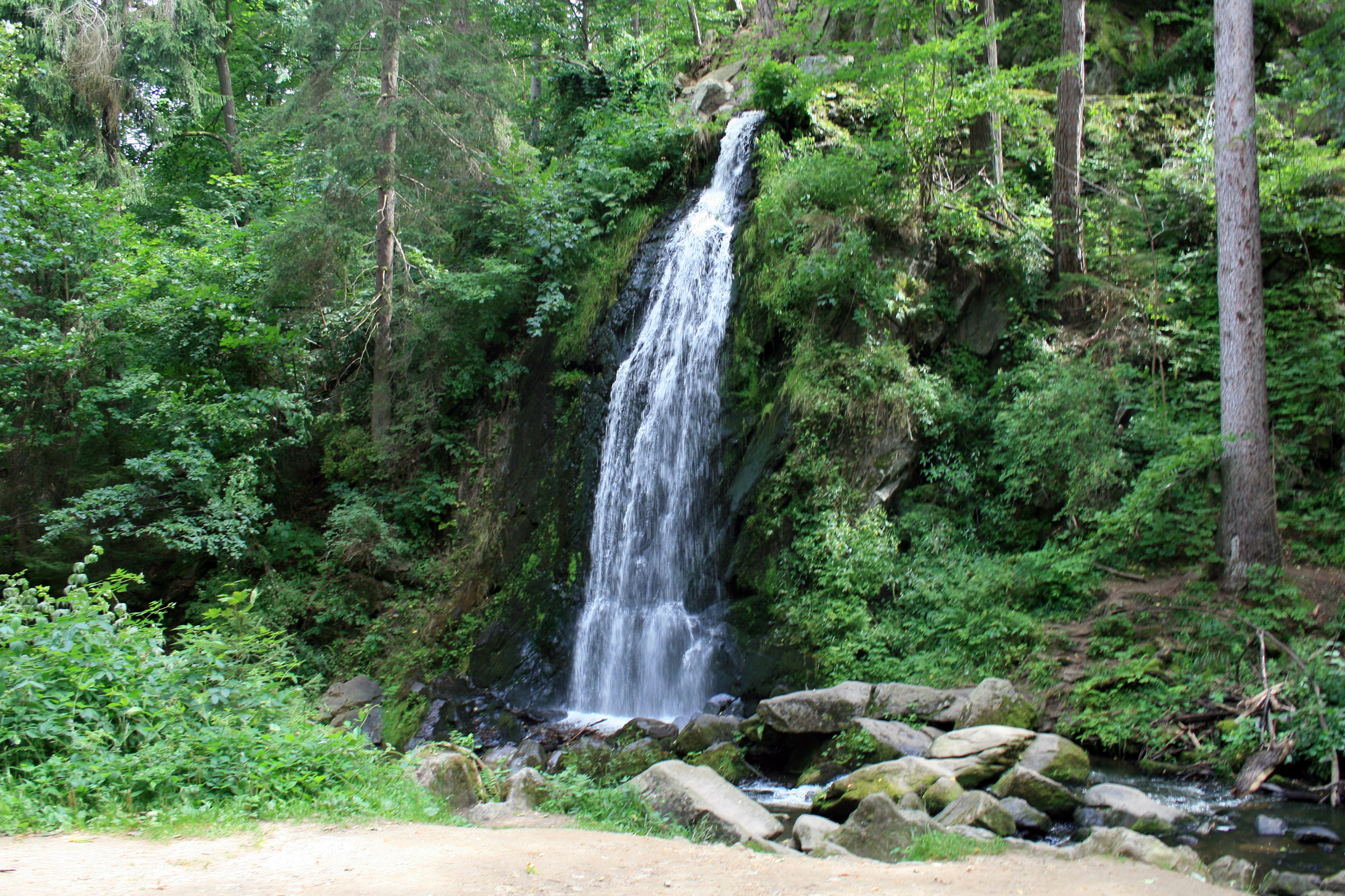 Artificial waterfall on small river Stropnice in Terezka waley near Nové Hrady, South Bohemia, Czech Republic